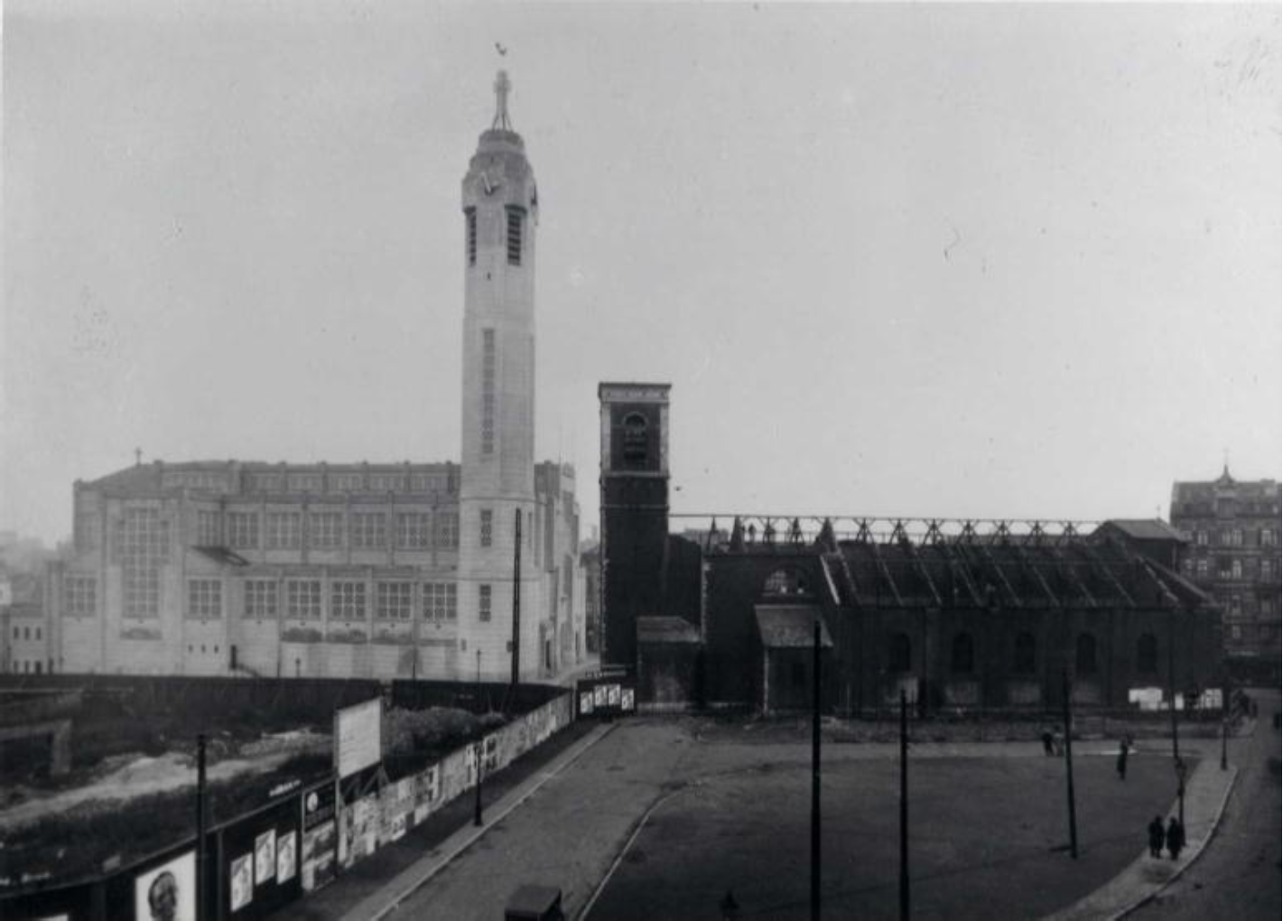 Sint-Jan-Baptistkerk of Molenbeek (Brussels) in 1932. The old church is being demolished while next to it the new church is already finished. Collection MoMuse, P 2010.0014